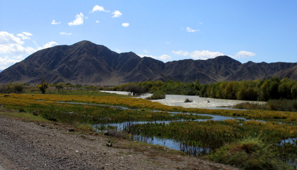 A number of rivers flowed through this verdant valley, and into a reservoir.